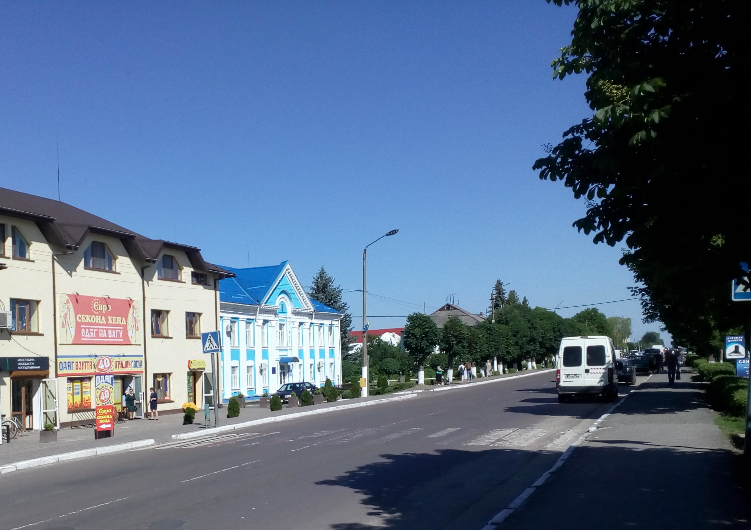 Ratne, Central Street